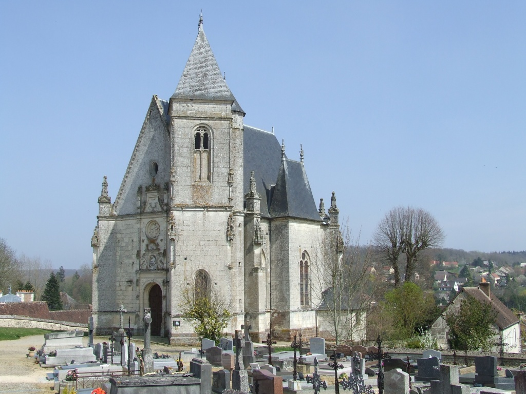 Notre-Dame de Pitié (Our Lady of Mercy) chapel, Longny-au-Perche, Orne, France